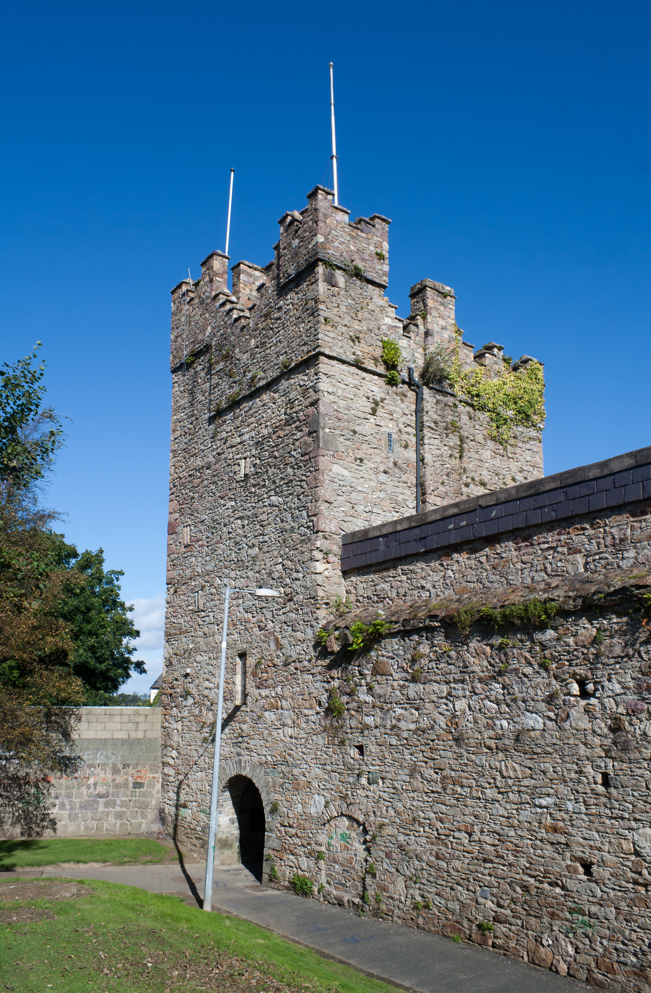 Exterior view of the Selskar gate of the medieval town walls of Wexford. This gate belong to the Priory of SS. Peter and Paul of Selskar by Wexford and connected the priory church (inside the walls) with the monastic buildings (outside the walls). The building was also used as a tower house and is the only tower house left in Wexford. It was restored in the 1980ies.